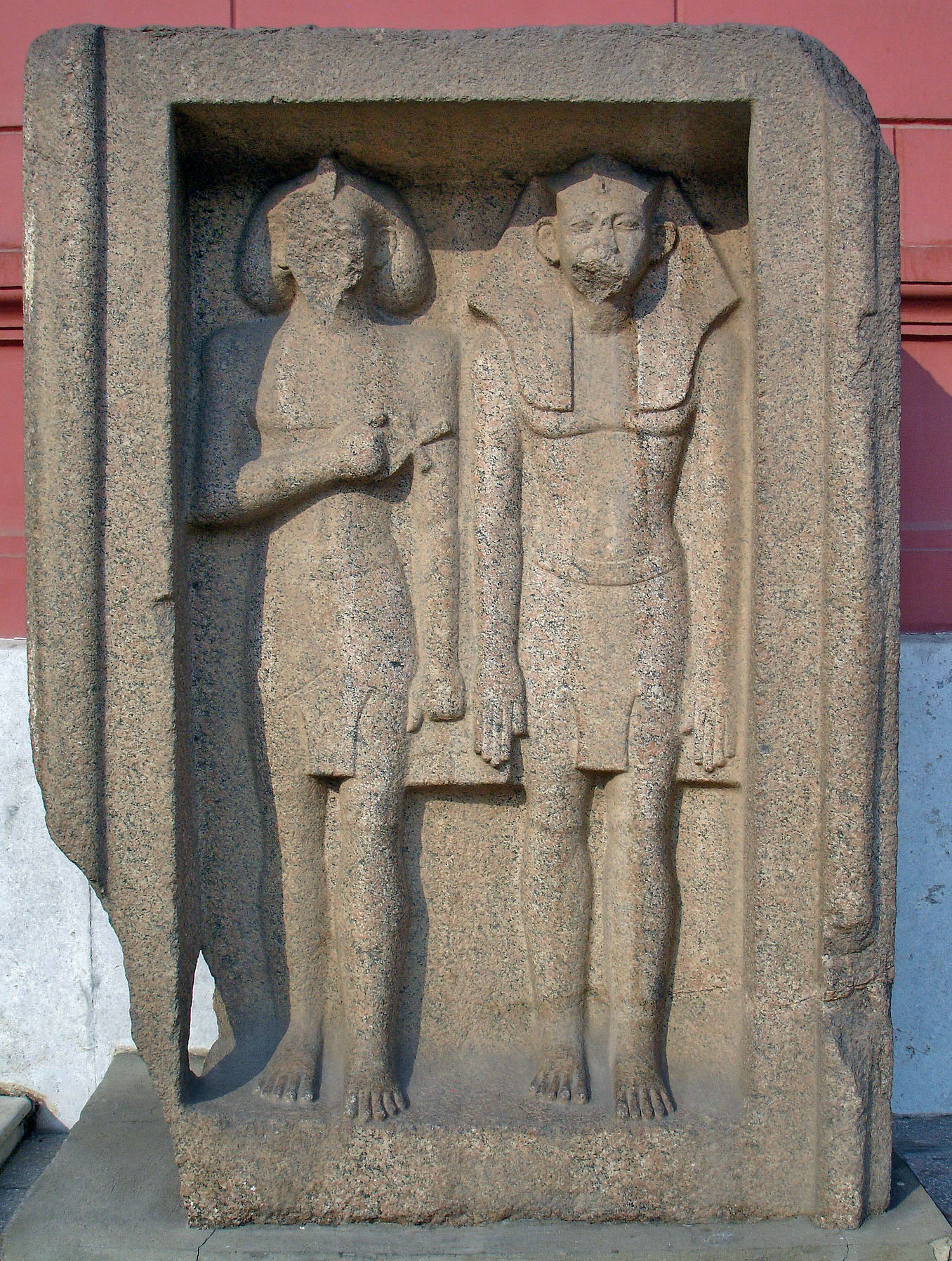 One of the naos from the funerary temple of Amenemhat III at Hawara. The left figure, flexing his arm across his chest in order to bring a sign "ankh" (life) to the face of his partner, is surely the deified king Amenemhat III. Therefore, the king on the right, can be none other than his son and successor on the throne, Amenemhat IV. Aswan pink granite. Cairo Museum. Main facade.